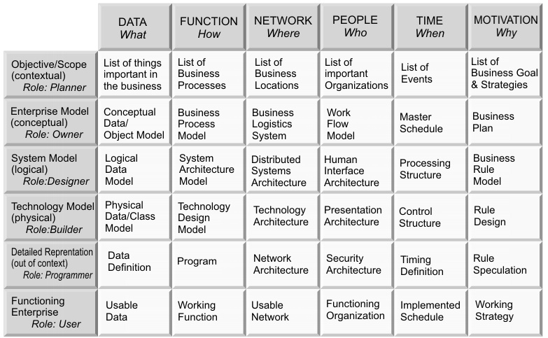 Zachman Framework basics